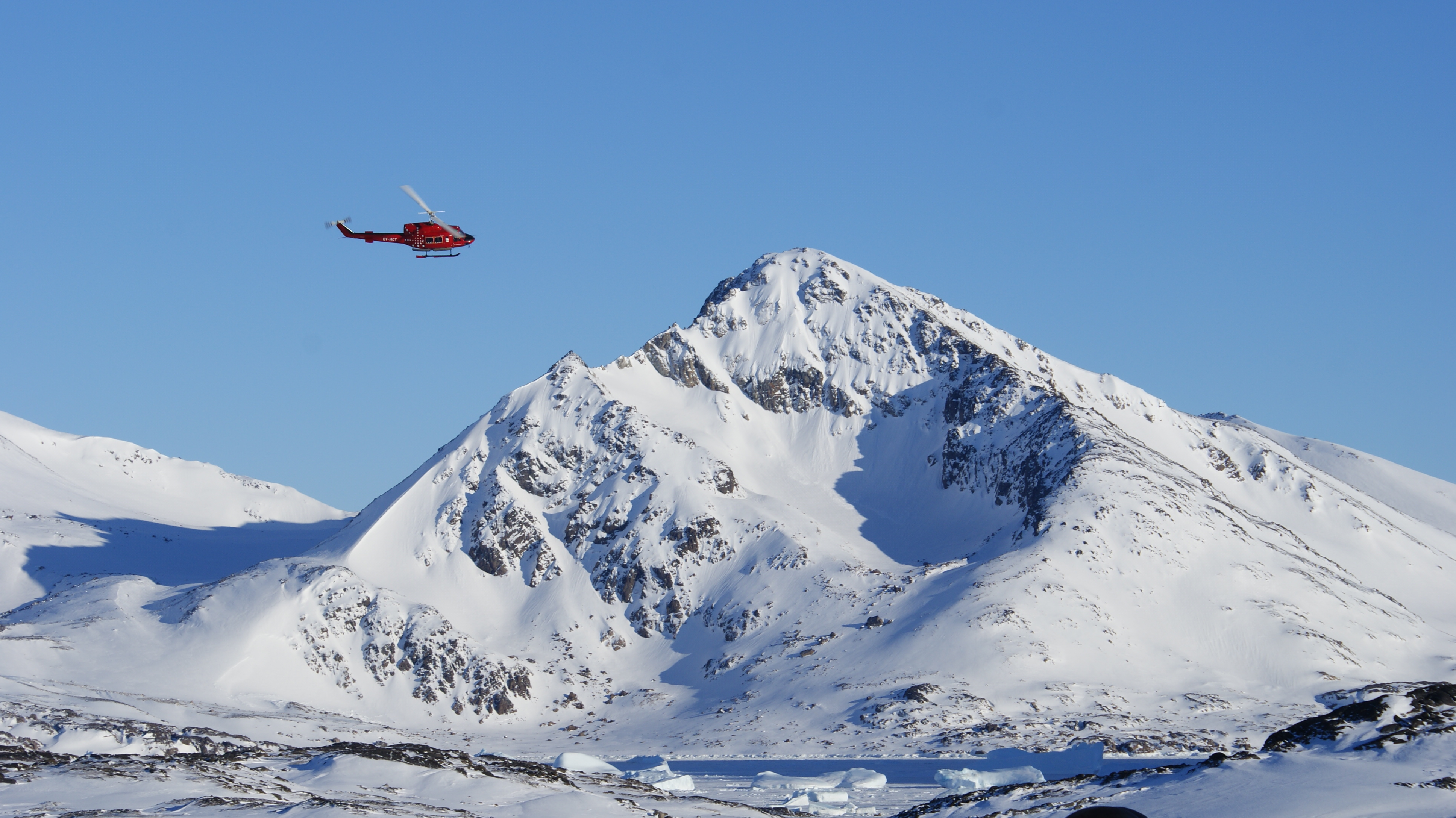 Air Greenland Bell 212 approaching Kulusuk Airport, Greenland, during flight from Tasiilaq Heliport. Kangaartik mountain in the background.